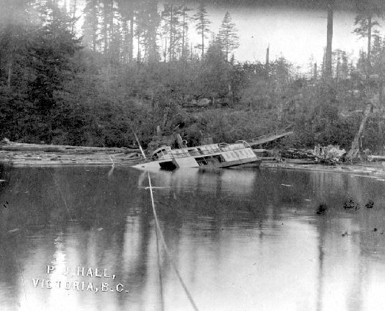 Sechelt (steamboat) sunk at Bowen Island, British Columbia ca 1910.